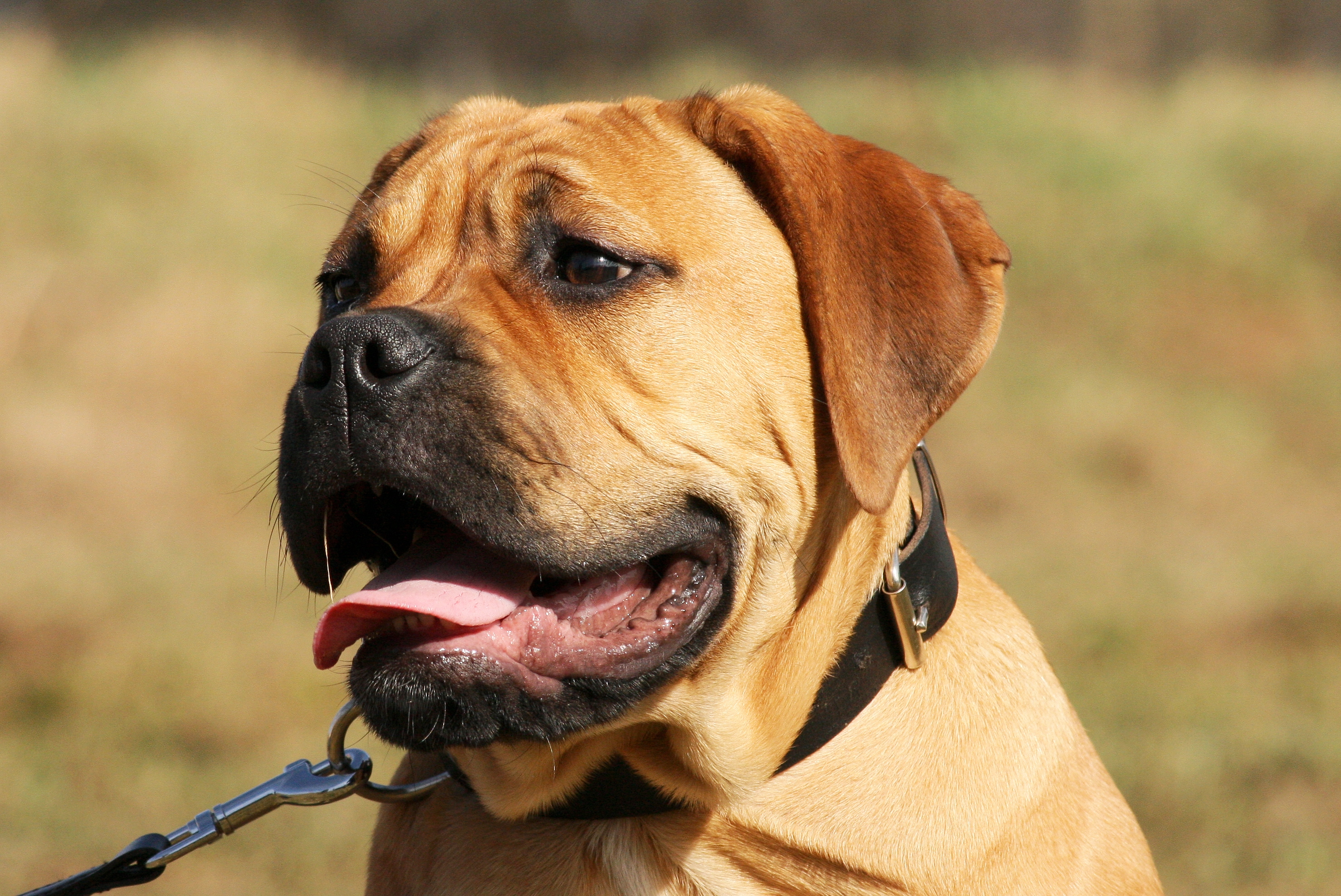 März 2012 Creative Commons Licence BY 2.0 Quellenangabe / Credit: Photo by Maja Dumat